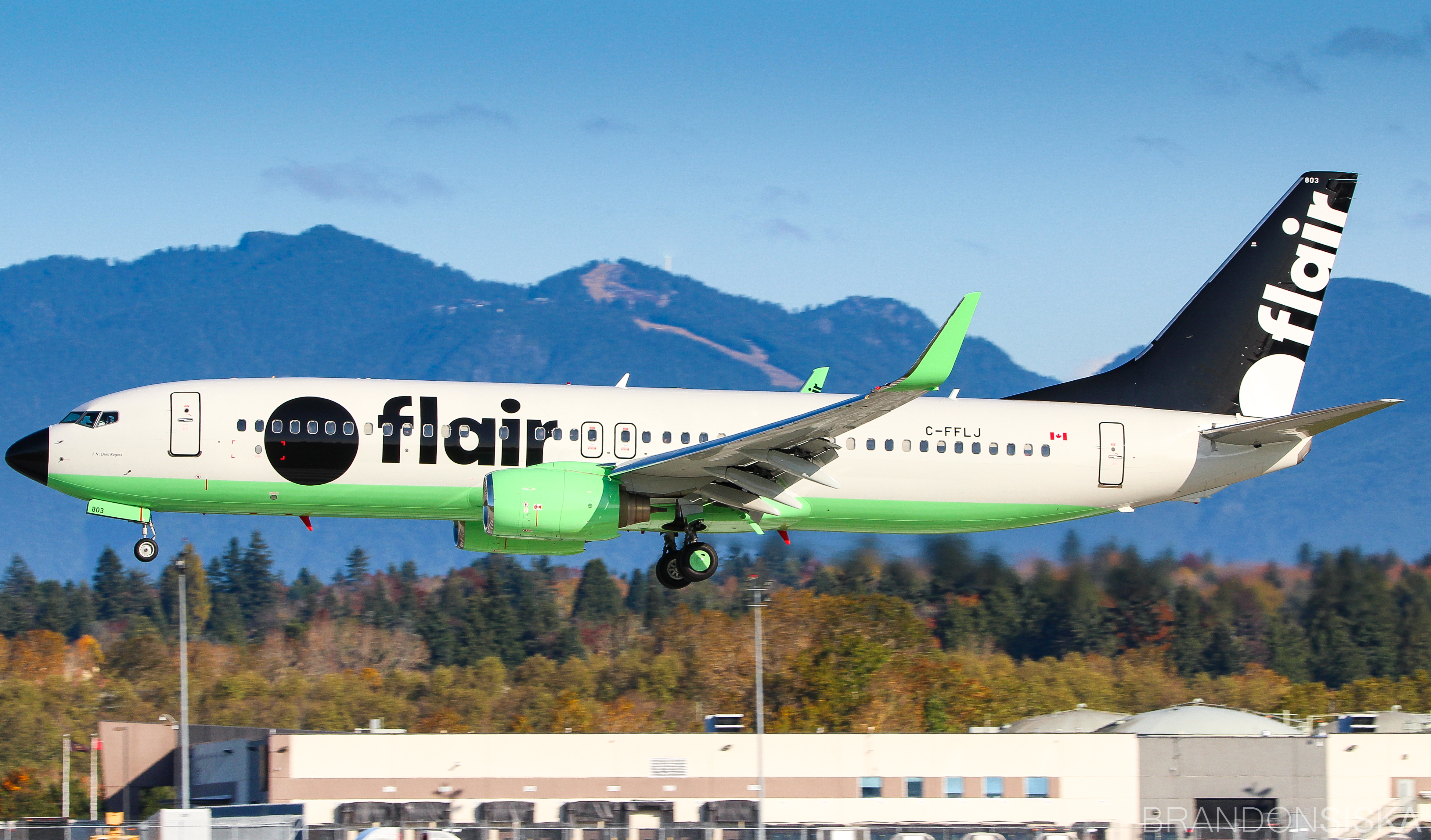 Arriving at YVR